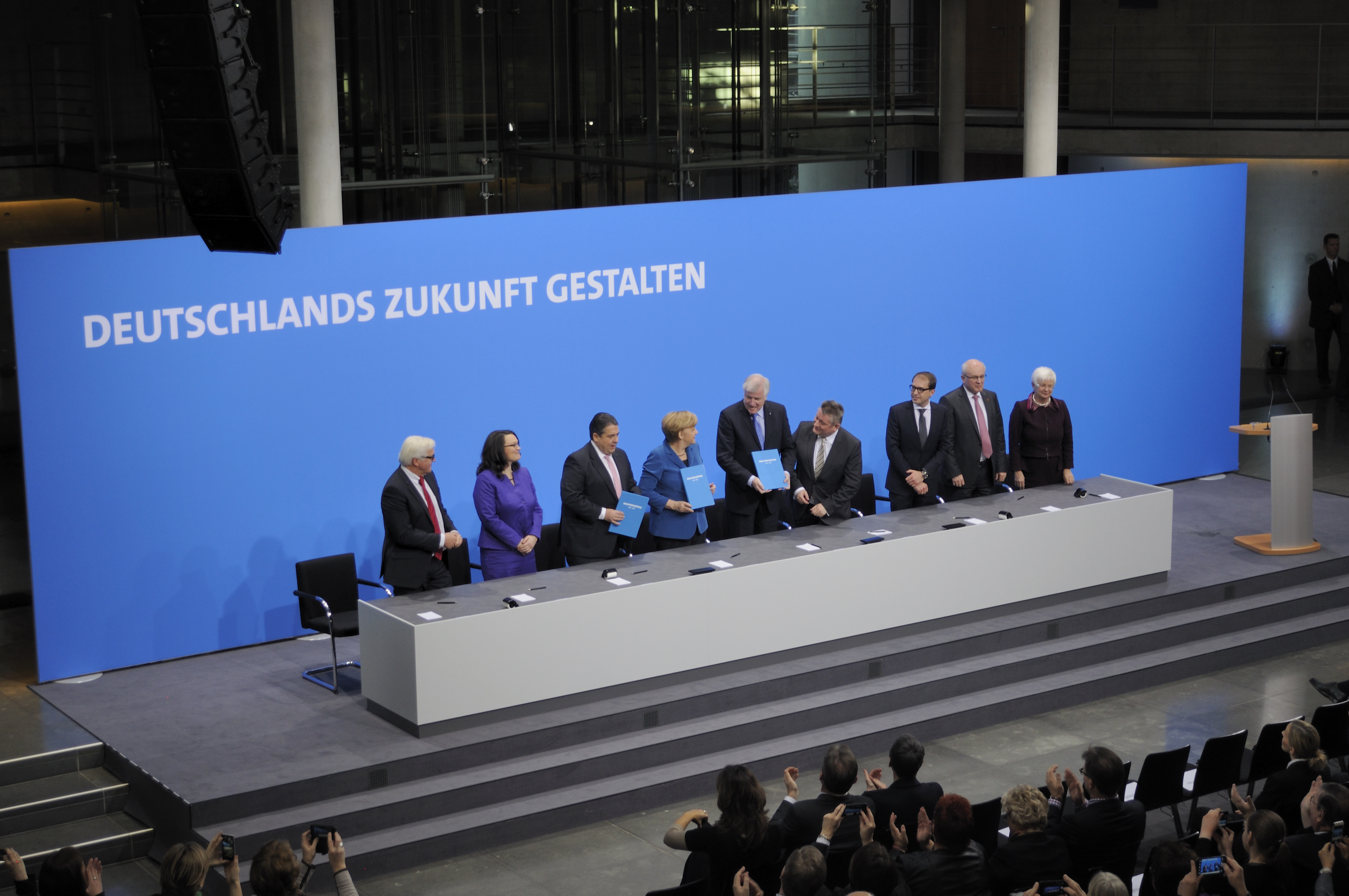 Signing of the coalition agreement for the 18th election period of the Bundestag. Frank-Walter Steinmeier, Andrea Nahles, Sigmar Gabriel, Angela Merkel, Horst Seehofer, Hermann Gröhe, Alexander Dobrindt, Volker Kauder, Gerda Hasselfeldt.